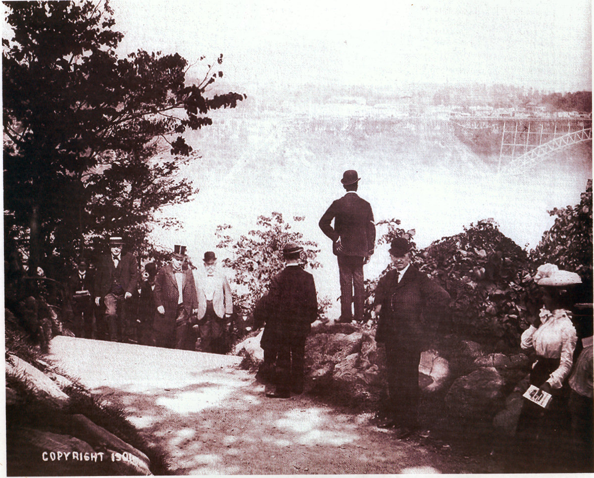 Thomas Vincent Welch and President William McKinley at Niagara Falls, roughly 4 hours prior to President McKinley's assassination at the Pan-American Exposition.